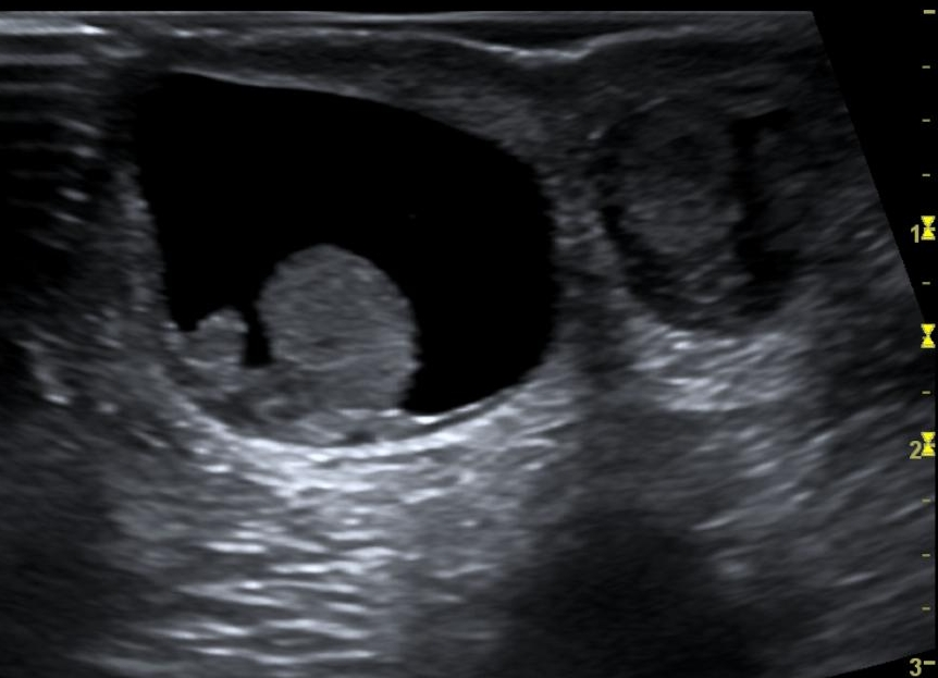 Sonogramm of right-sided hydrocele ina 2 months old boy